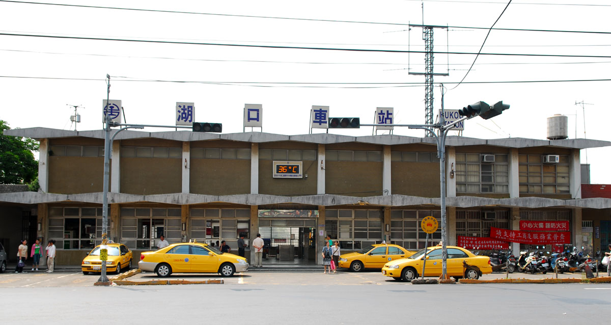 HuKou Station is a local train station of Taiwan's Western main rail line. The station is located the main station of Hukou Township, Hsinchu County.